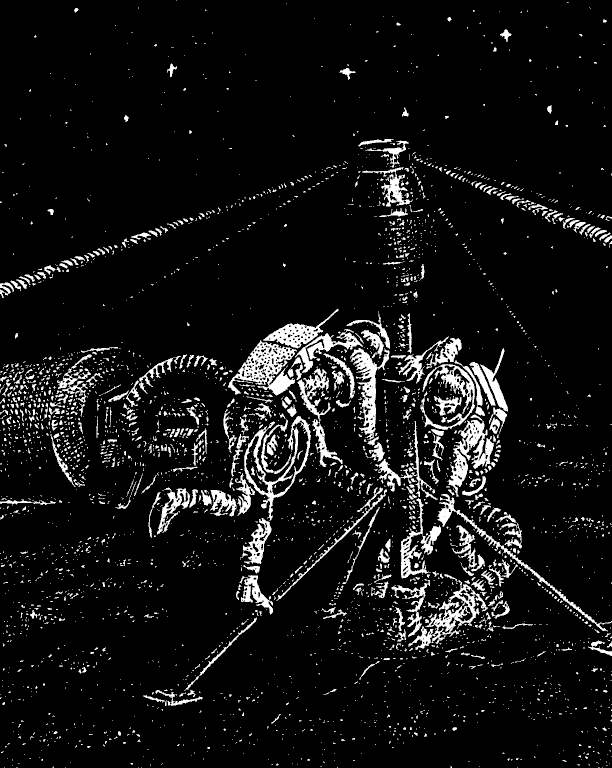 Mining an asteroid for reaction mass, Don Davis, 1977